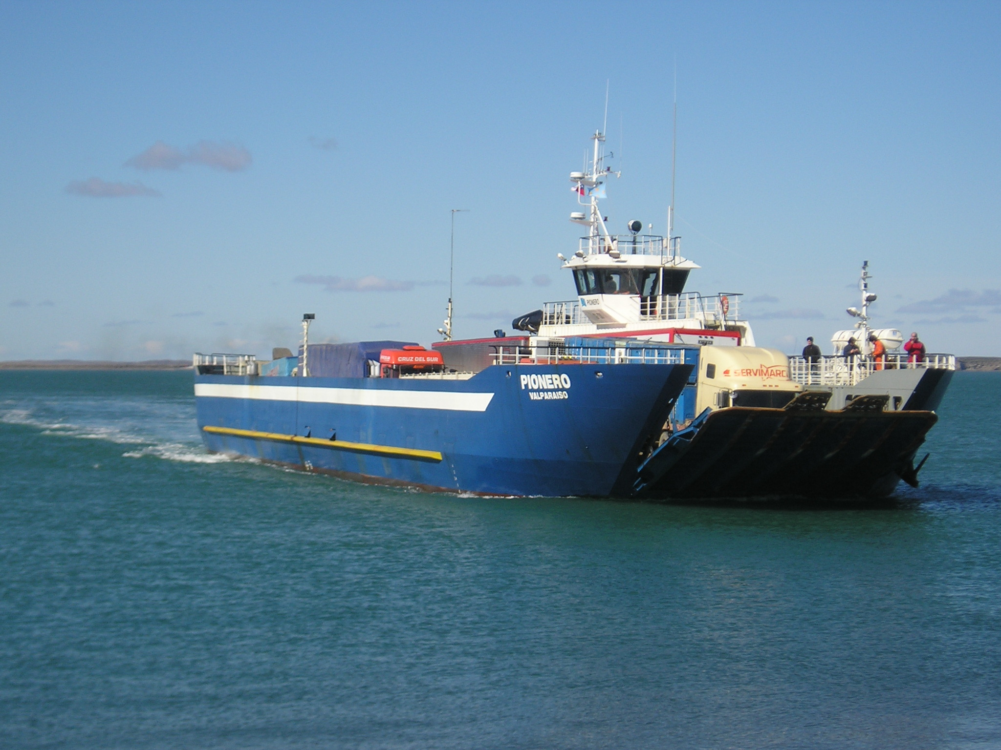 Pionero, providing frequent Transbordadora Austral Broom's service accross the Strait of Magellan between Punta Delgada and Punta Espora, approaching the Punta Delgada ferry terminal.